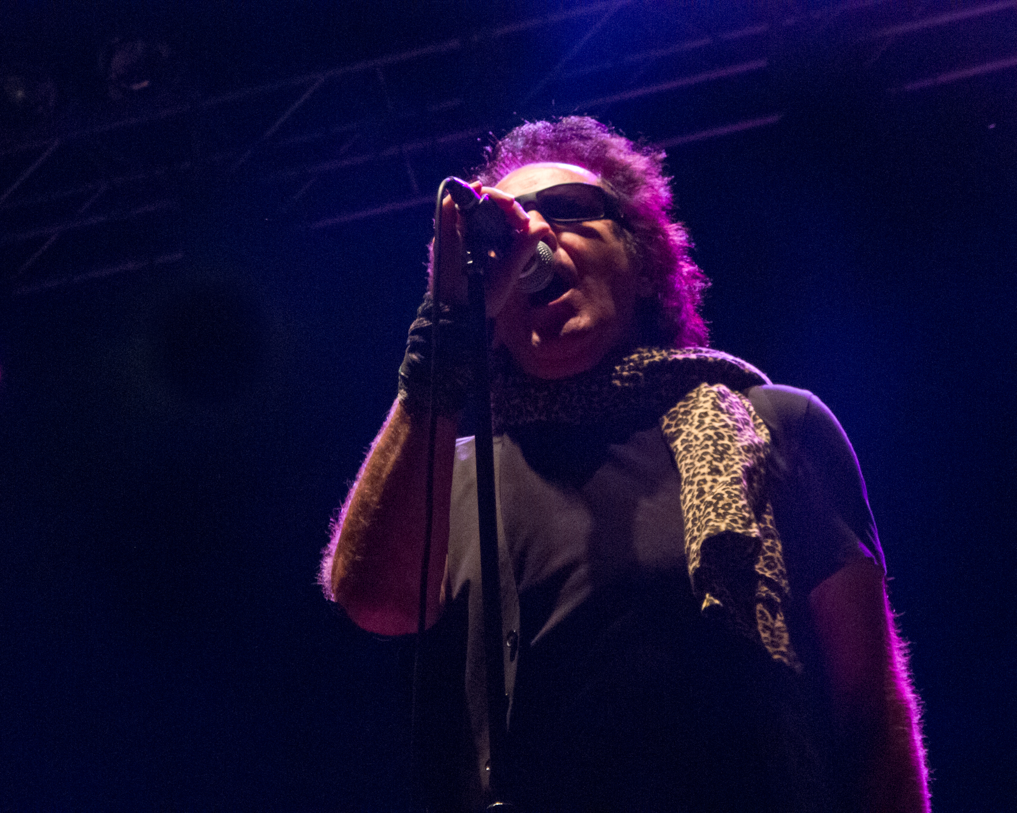 Burning performing live in 2012.